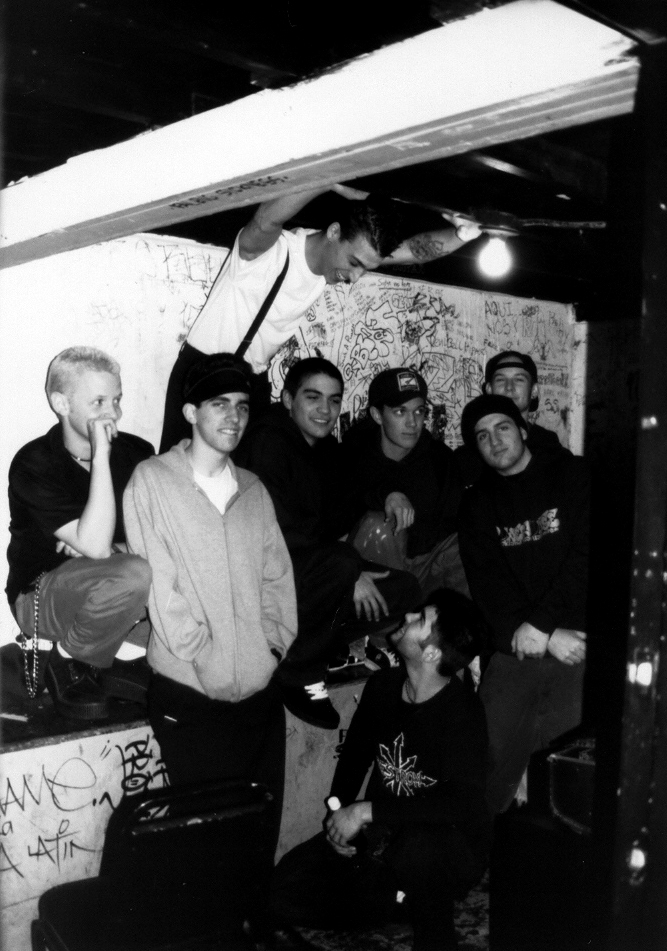 I took the photo and own rights.